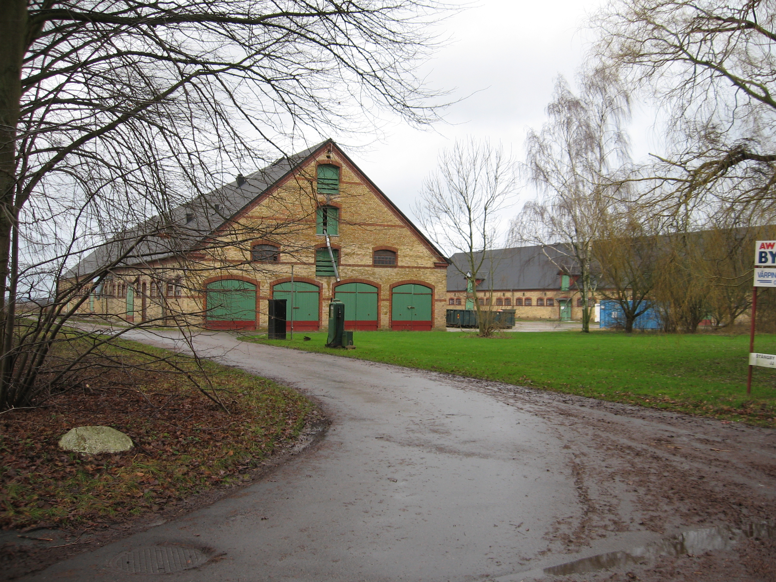 Farmhouse in Värpinge, Lund.